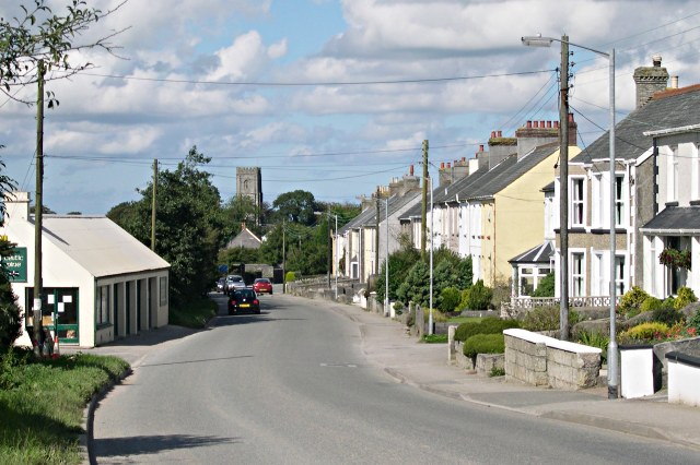 Trezaise A row of clayworkers houses south of Roche. The tower of Roche church is visible at the northern end of this grid square.